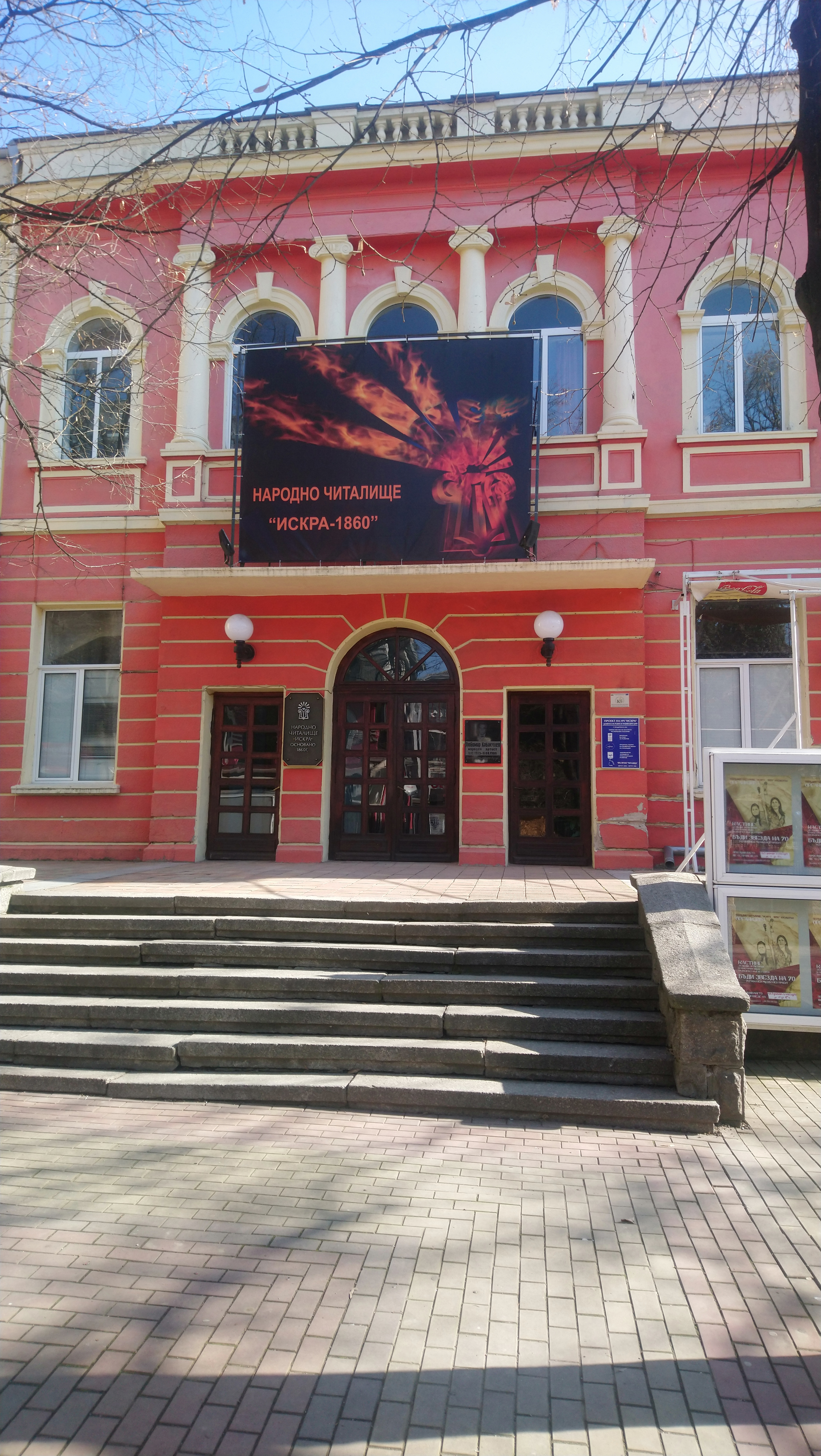 Chitalishte "Iskra" Kazanlak